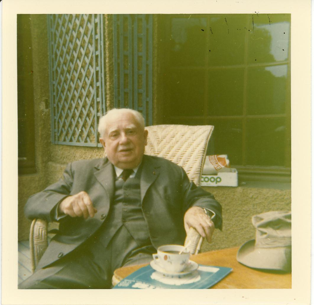 Chaudron Georges, Étretat, France circa 1973